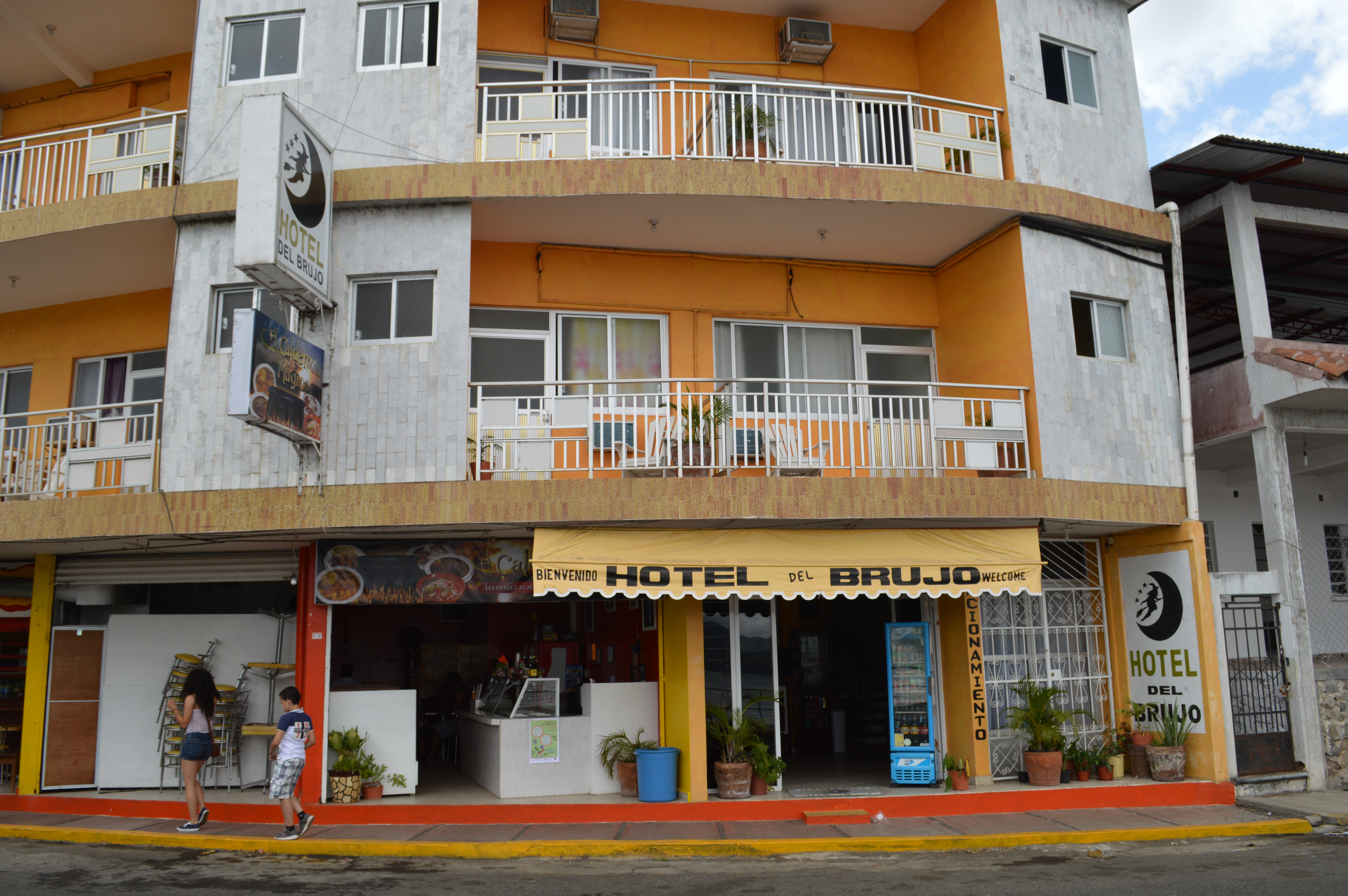 Hotel del Brujo (Hotel of the Witch) in Catemaco, Veracruz, Mexico